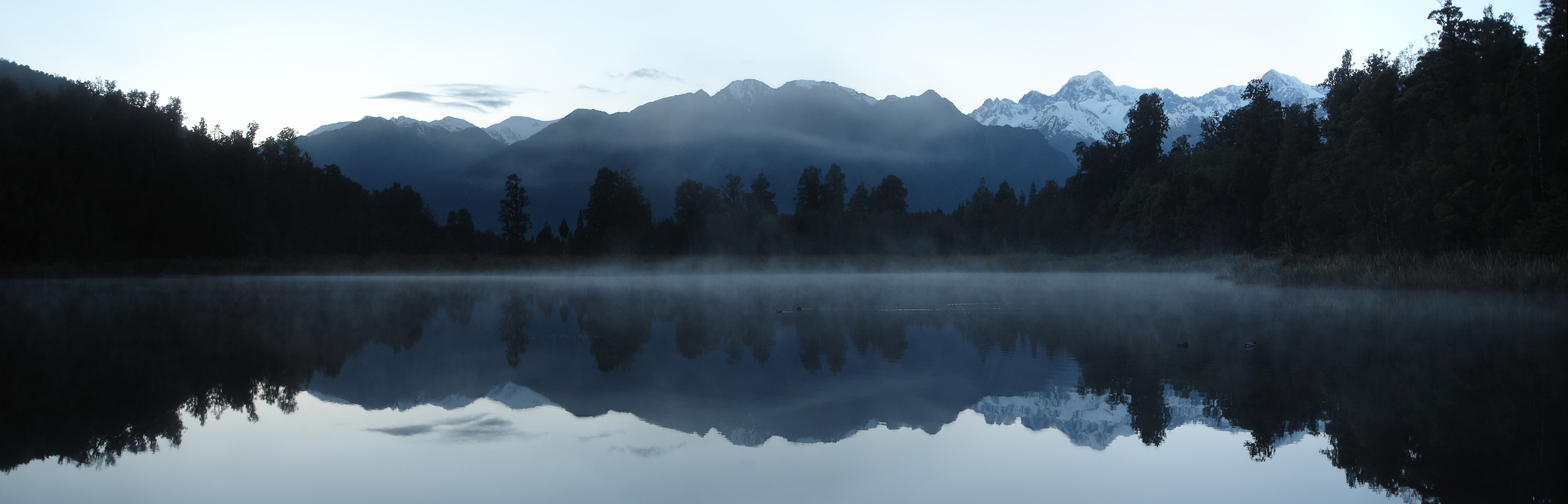 Mount Cook is reflecting in Lake Matheson in the early morning shortly before sunrise (6:31 am), near the Town of Fox Glacier, New Zealand. Watch out for the Ducks!